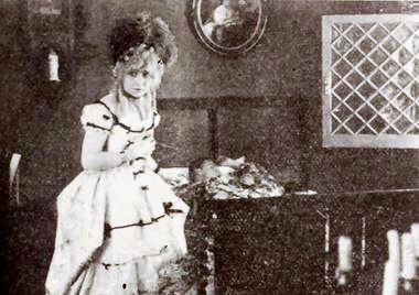 Still from the American film Borrowed Plumage (1917) with Bessie Barriscale, on page 25 of the August 18, 1917 Exhibitors Herald.